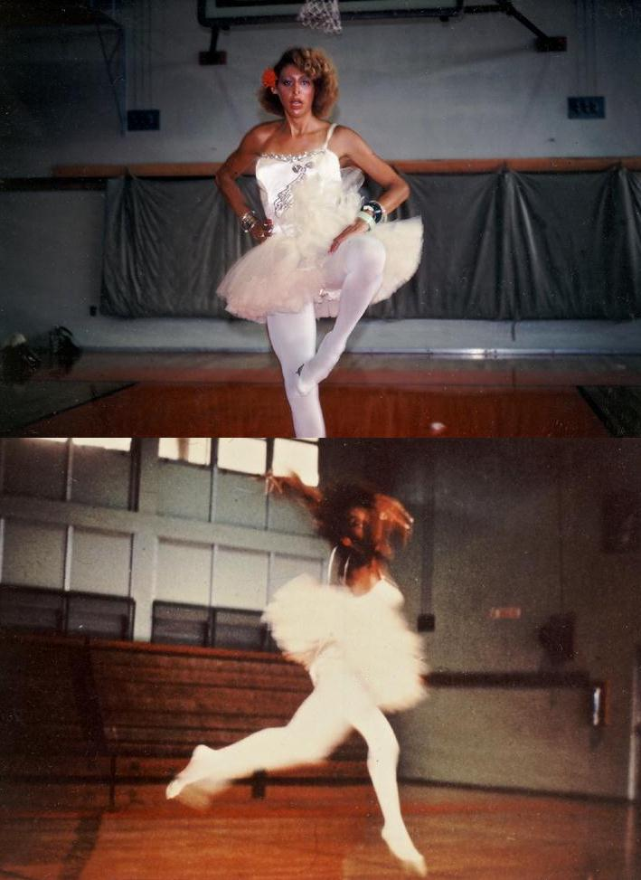 Jessica Kilo and Chiena Chinette in two slide photos used in Wild Side Story, as released by image creator Lars Jacob ProdPlace: Miami Beach Senior High School, 2231 Prairie Avenue, Miami Beach, Florida